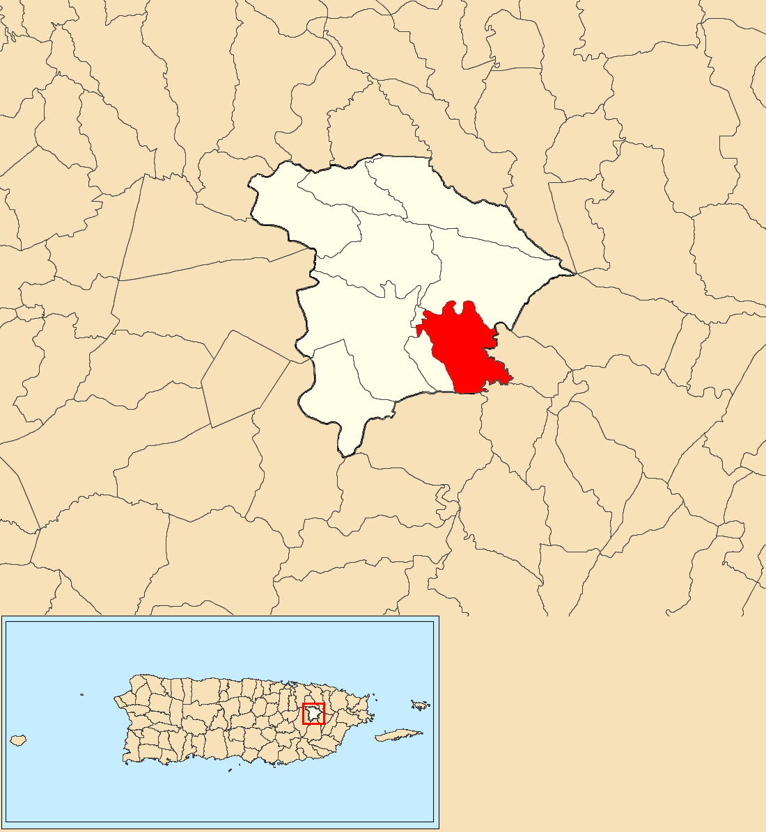 Mamey, Gurabo, Puerto Rico locator map